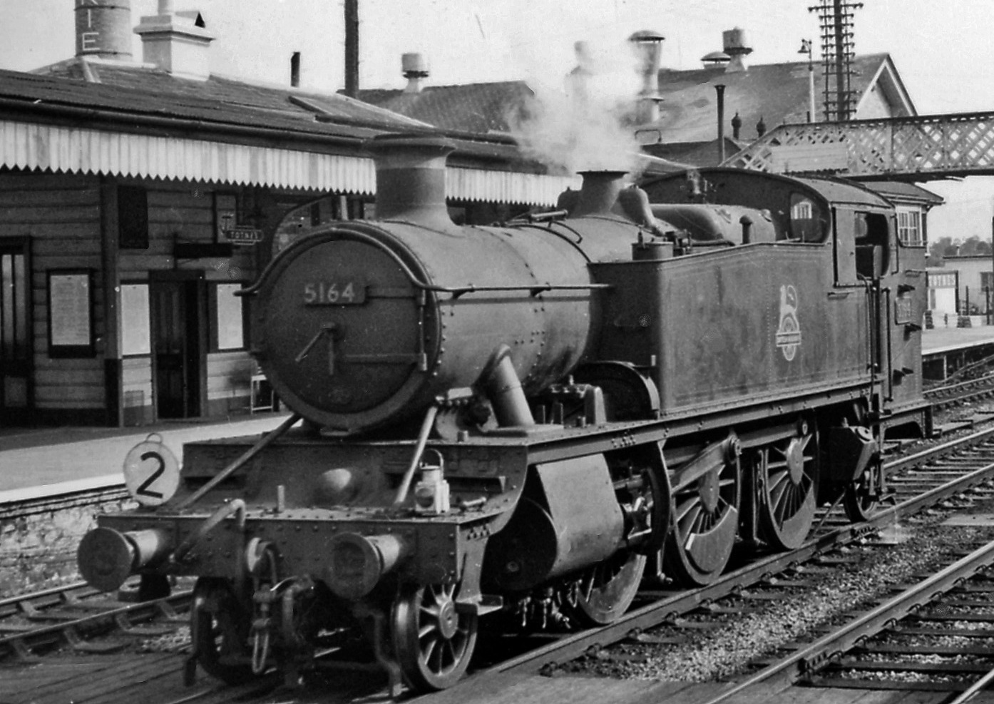 Totnes station, with 2-6-2T banker. View NE, towards Newton Abbot, Exeter etc.: ex-GW Exeter etc. - Plymouth - Penzance main line. '5101' 2-6-2T No. 5164 (built 11/30) is waiting in the centre road for the next Down train requiring banking up Rattery Bank.